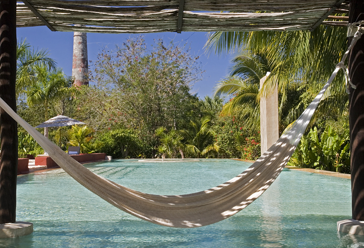 Hammock and pool of the Hacienda San Jose